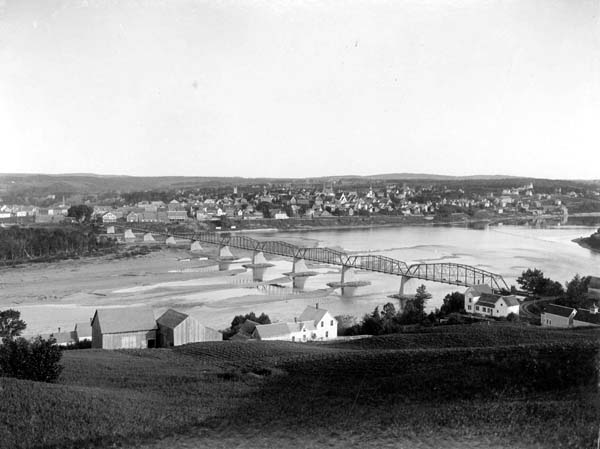 View of Woodstock, New Brunswick.